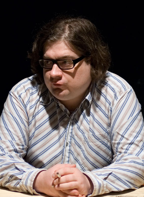 Anatoly Osmolovsky